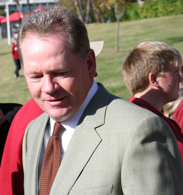 Photograph of Arkansas Razorback Coach, Bobby Petrino, during the pre-game "Hog Walk" to the stadium.